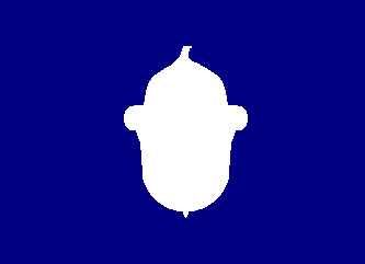 XIV Corps, Army of the Cumberland, 2nd Division Badge